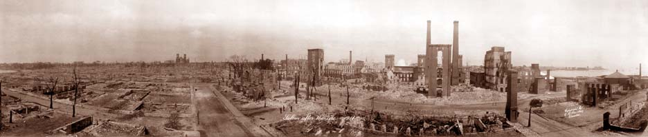 Panorama of Salem, Massachusetts after the Great Salem Fire of 1914